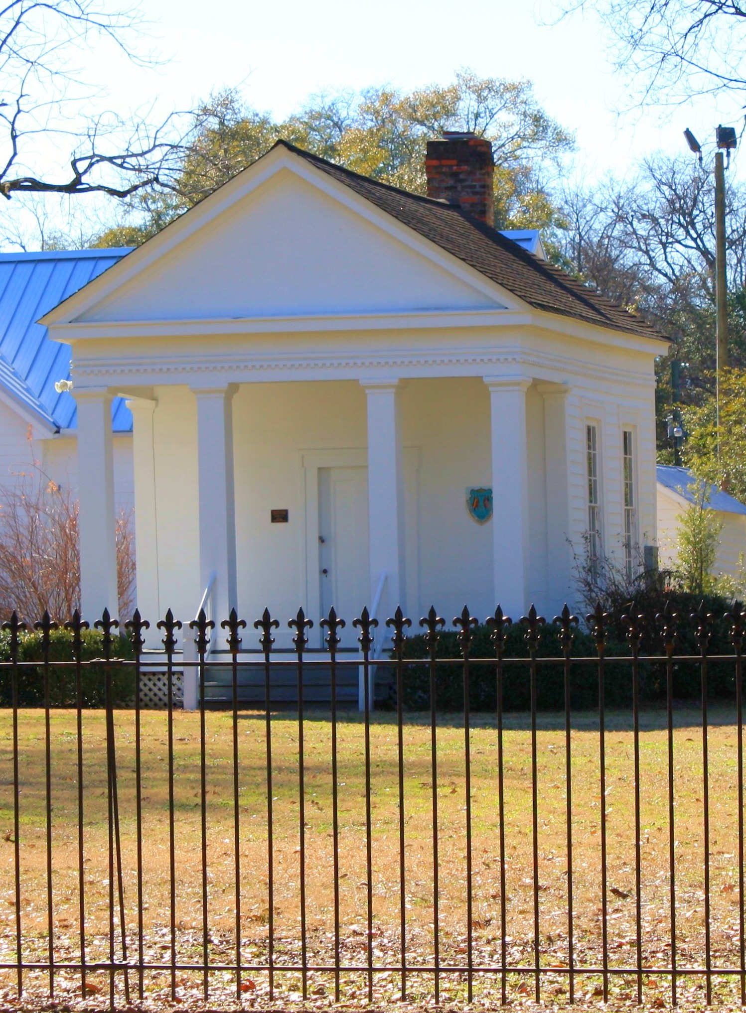 The Plantation Apothecary Office from Roseland Plantation near Faunsdale in Marengo County, Alabama. Moved to Sturdivant Hall in Selma, Dallas County, Alabama to avoid its destruction.